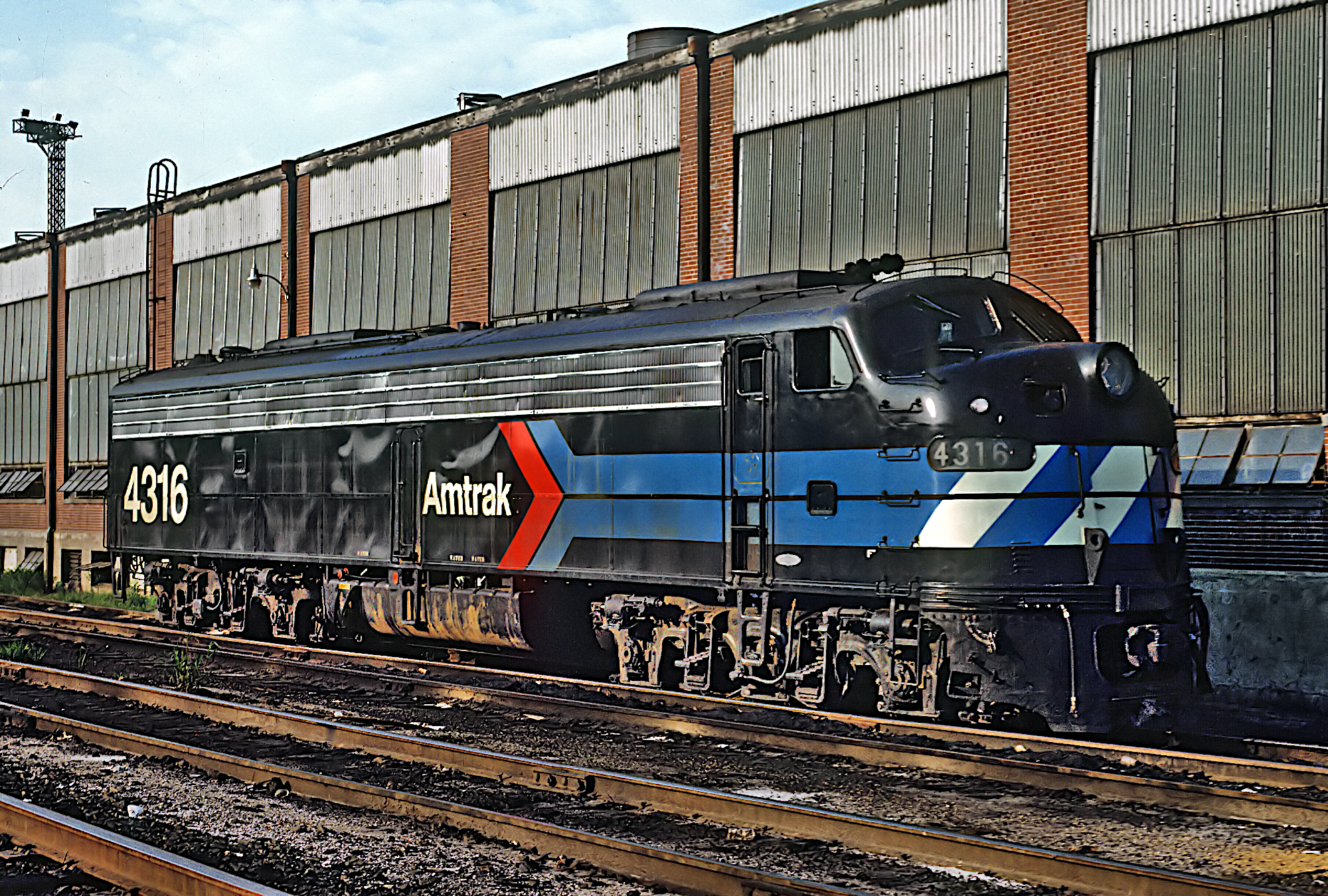 A one-of-a-kind paint job on Amtrak 4316 (ex-PC nee-PRR) captured by Roger Puta in Harrisburg, PA in August 1971. The story goes that Amtrak needed something for publicity with its newly refurbished Broadway Limited so they cleaned up this black PC engine and added some graphics.